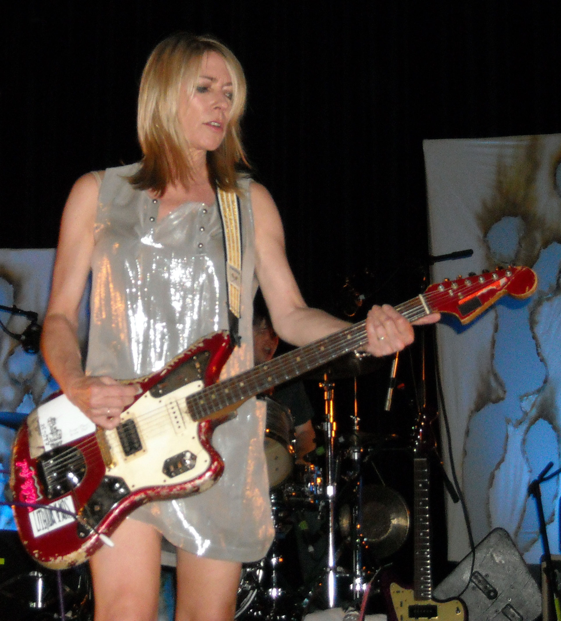 Kim Gordon of Sonic Youth The Bijou: Knoxville, Tennessee